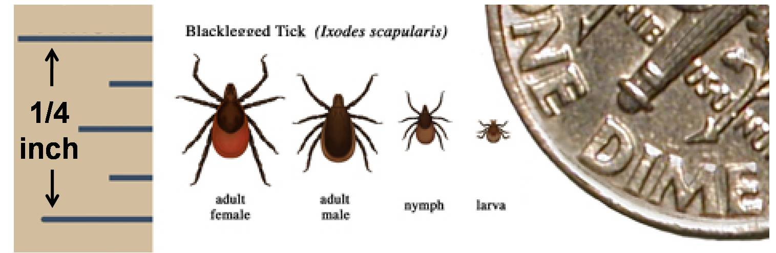 Image showing appearance and relative sizes of adult male and female, nymph and larval ticks (Ixodes scapularis)